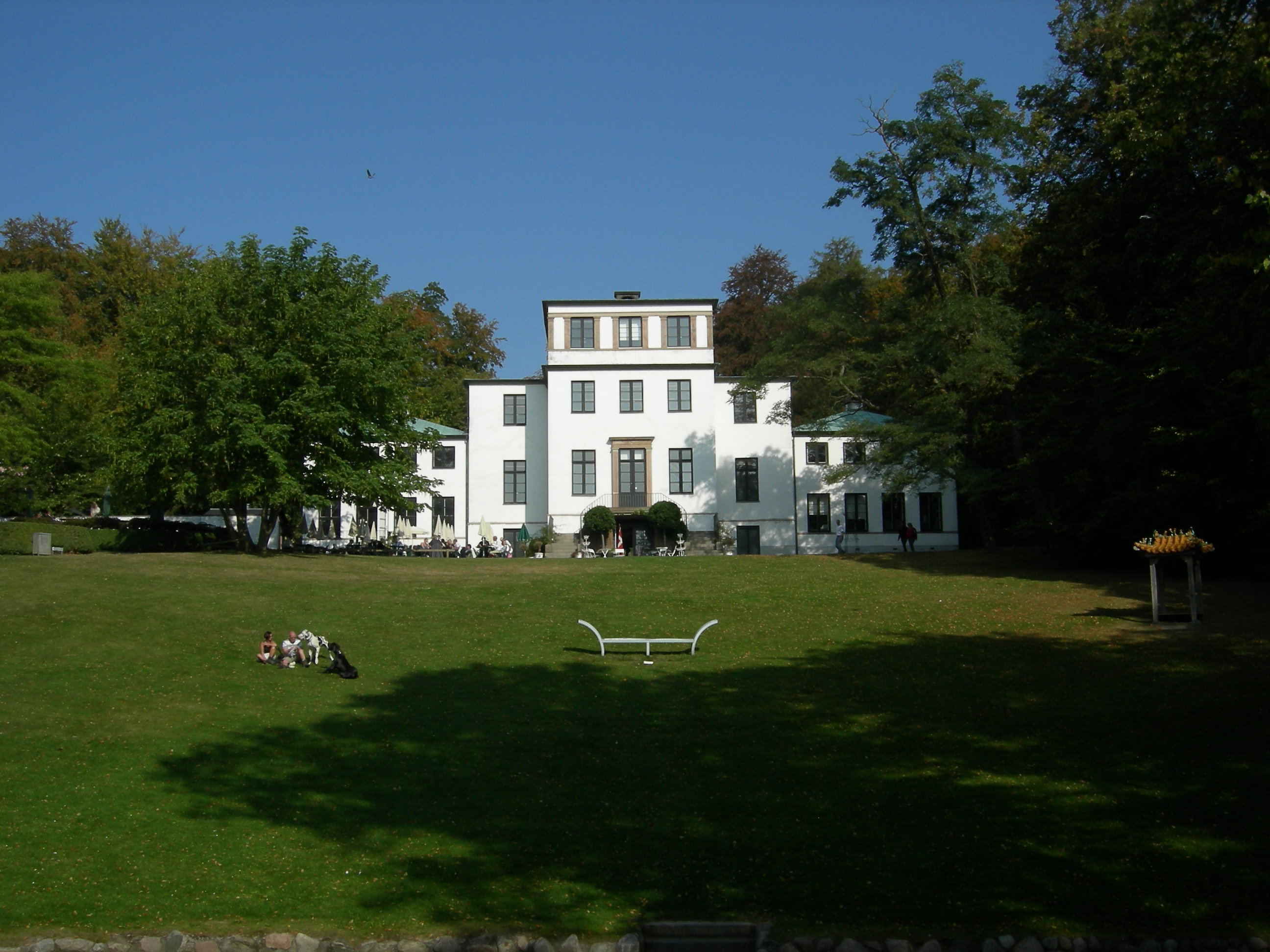 Sofienholm north in Lyngby, north of Copenhagen, Denmark